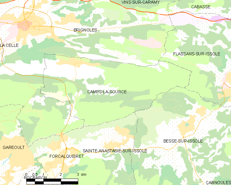 Map of French municipality Camps-la-Source